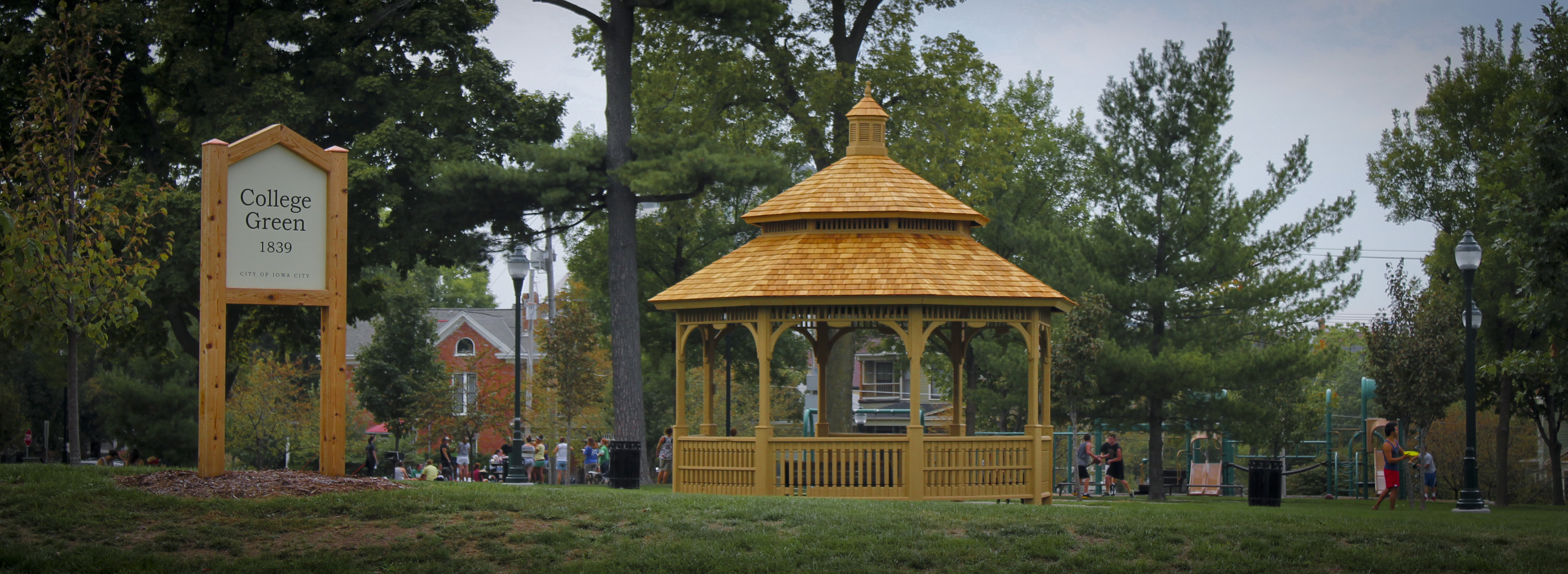 College Green Park located in the College Green Historical District of Iowa City, IA. The park was established in the year 1839.